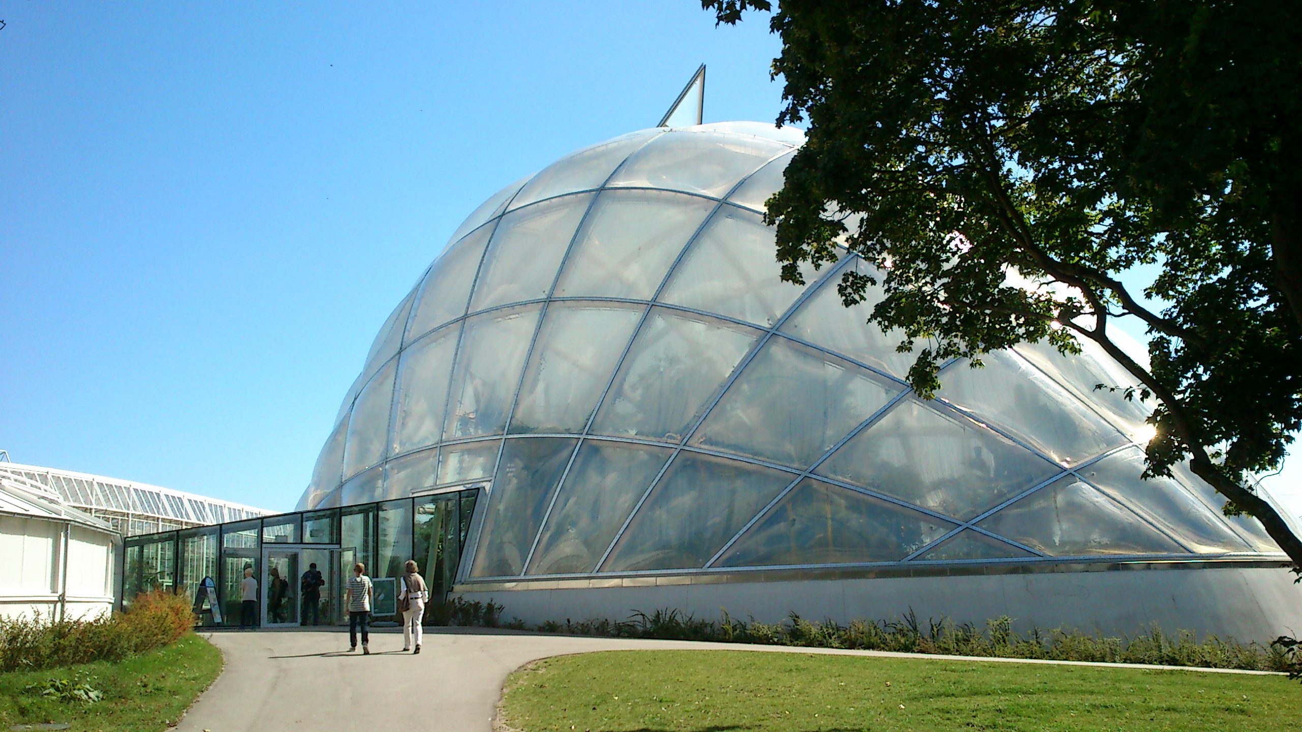 Entrance to the the greenhouses in Aarhus Botanical Gardens.